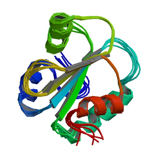 Endoplasmic reticulum protein 29 (ERp29). PDB ( rendering based on 1g7e.